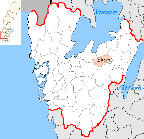 Skara Municipality in Västra Götaland County Designed by me. Mere outlines are a PD source from